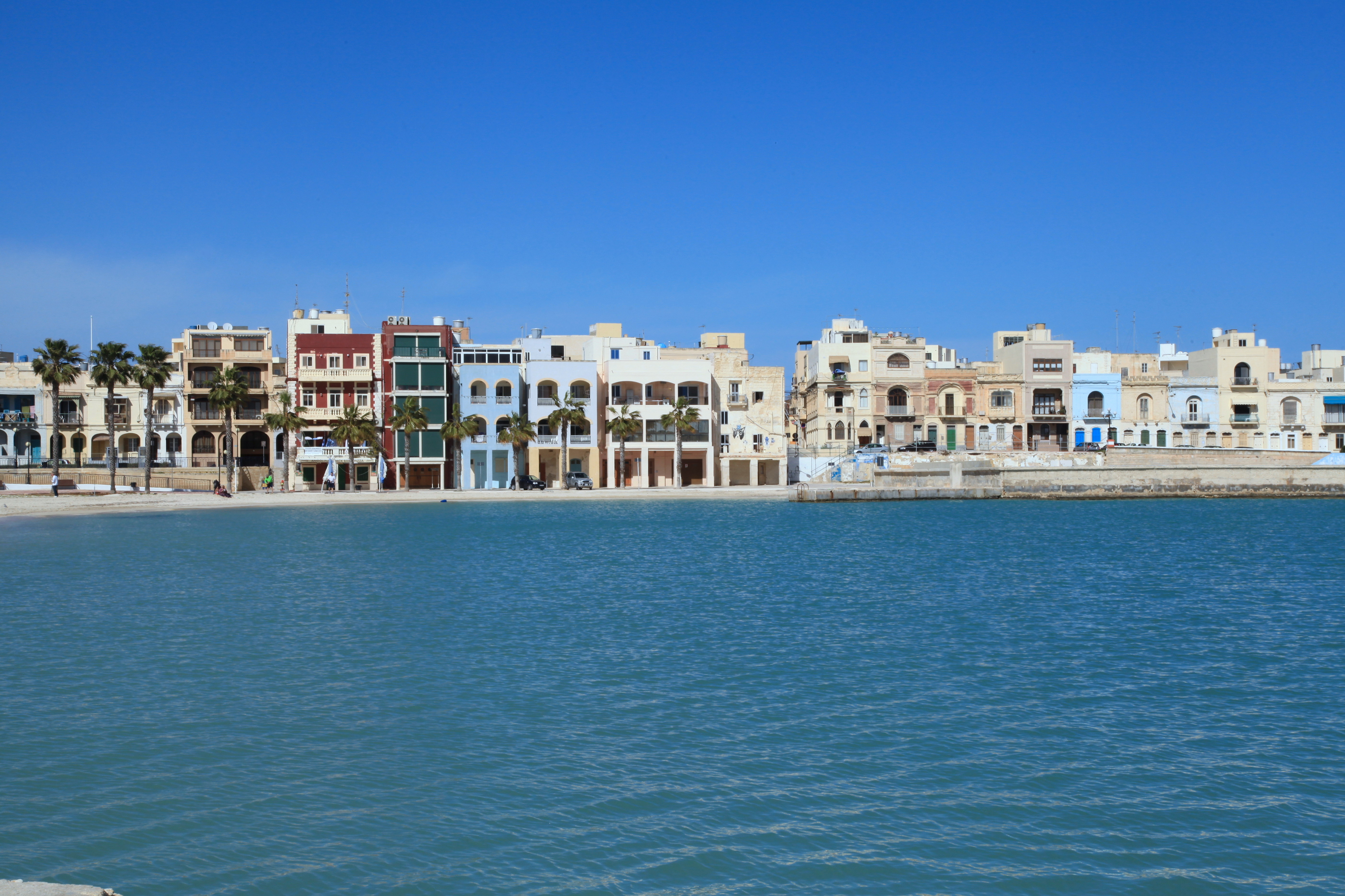 Pretty Bay with Triq il-Bajja s-Sabiħa in background in Birżebbuġa